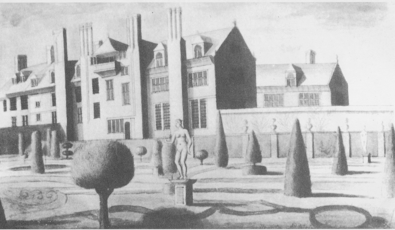 Heanton Satchville Hall, left wing, Petrockstowe parish, Devon, in 1716. Drawn by Sir Edmund Prideaux Bt. Collection of Mr P. Prideaux-Brune; published in Lauder, Rosemary, Vanished Houses of North Devon, Tiverton, 2005, p.49.